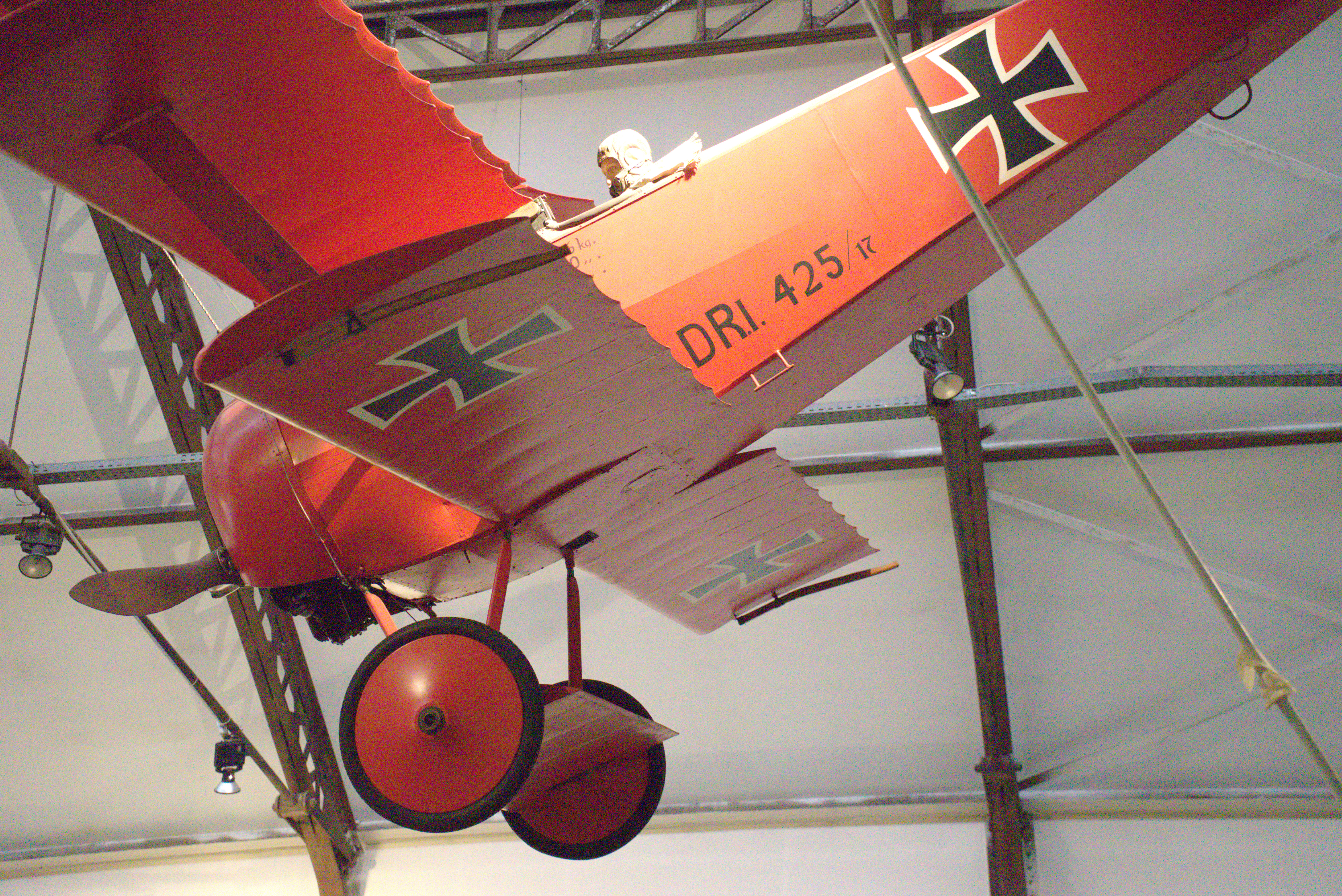 This is a file created at the museum: Royal Museum of the Armed Forces and of Military History in Brussels